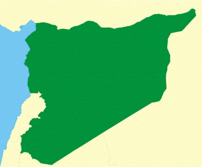 Syrian Republic Between 1930 - 1038 (French mandate era) before the seperation of the Sanjak of Alexandretta